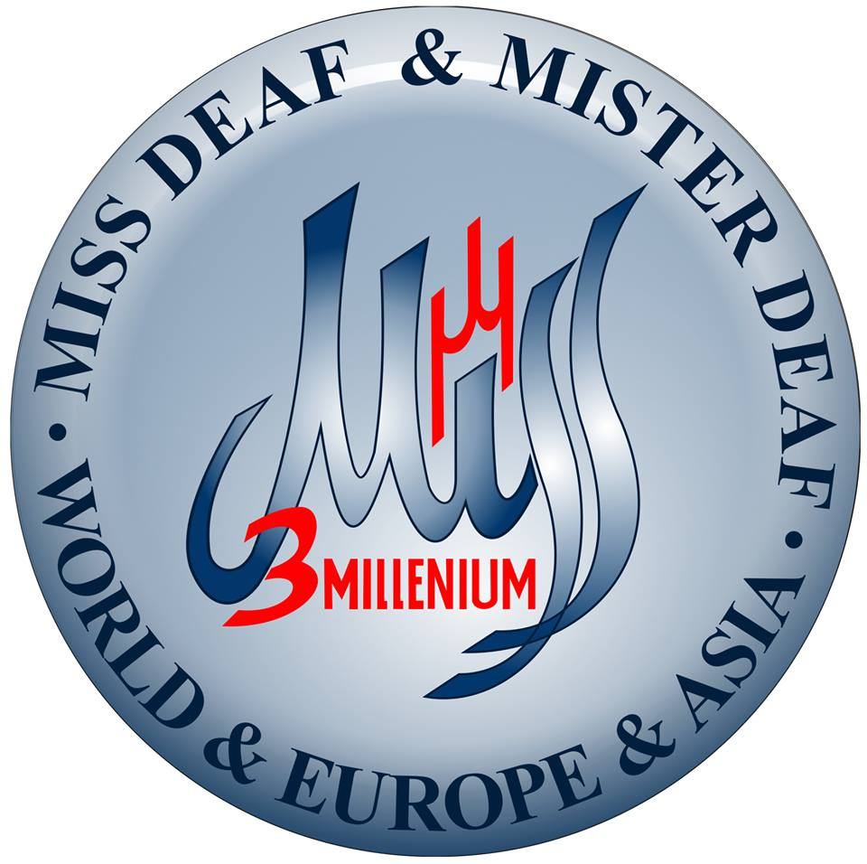 Miss & Mister Deaf World logo.